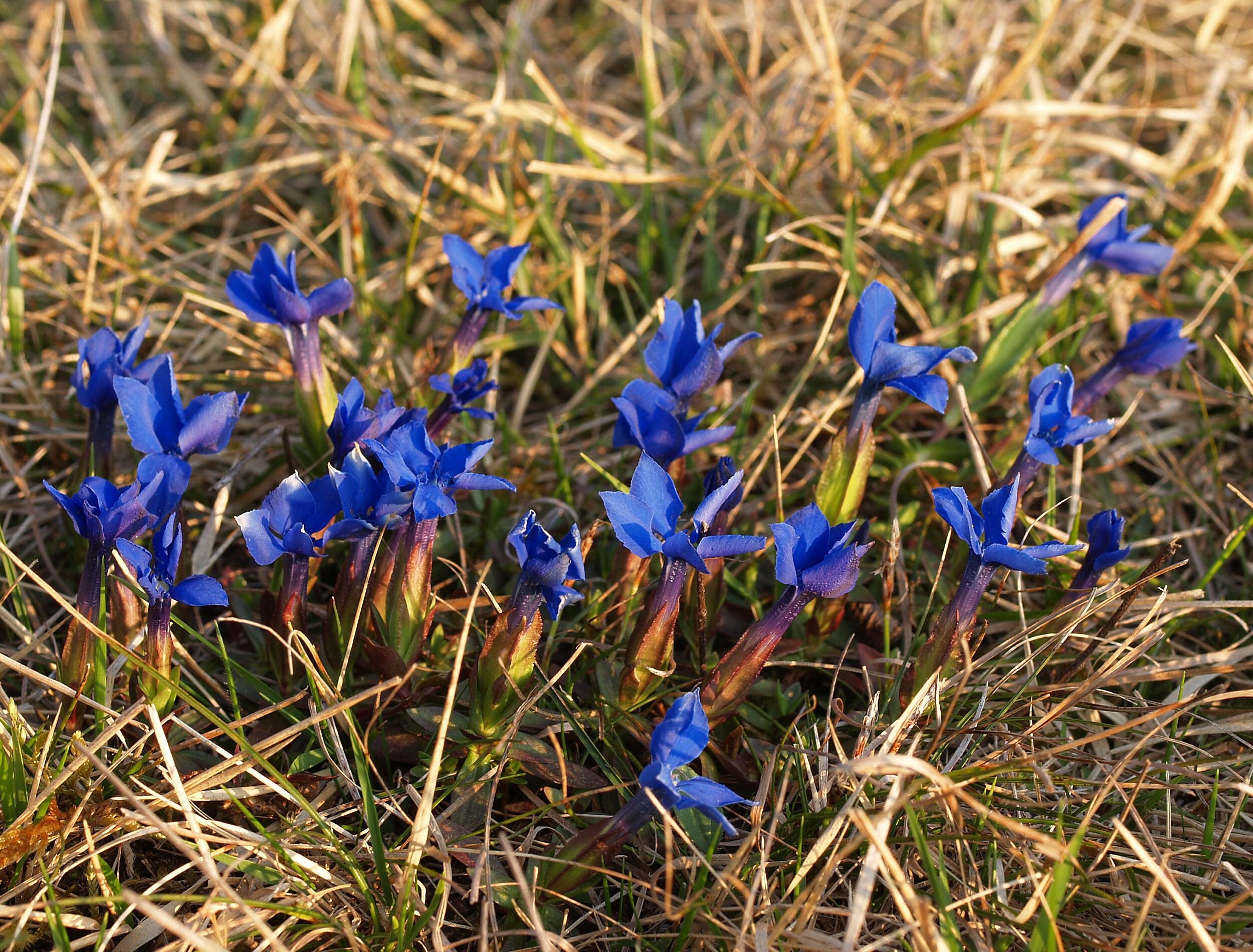 Gentiana verna